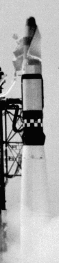 Launch of Thor SLV-2A Agena D with Corona 93 satellite.